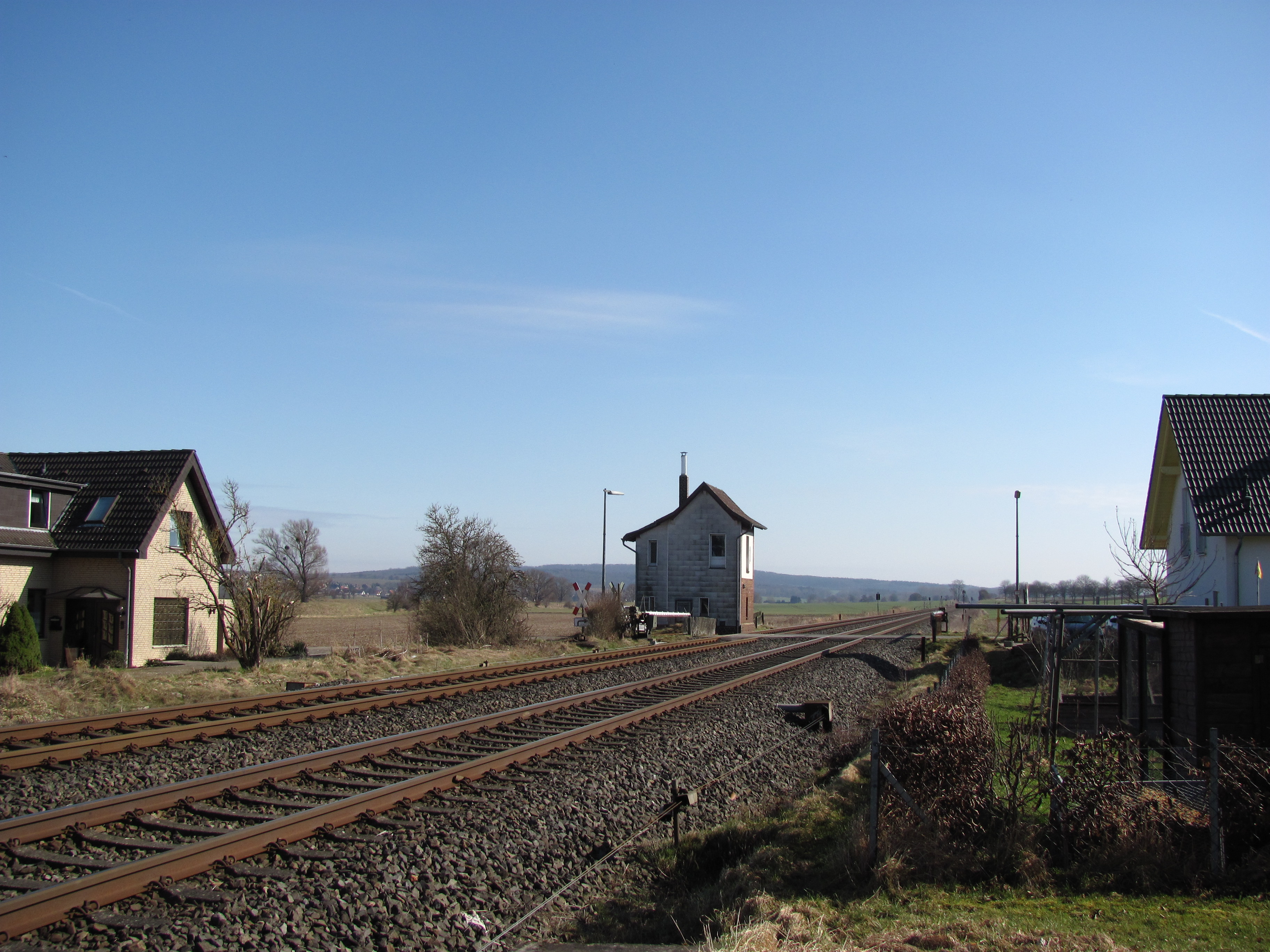 Former railway halting place, Bad Salzdetfurth-Hockeln, Lower Saxony, Germany